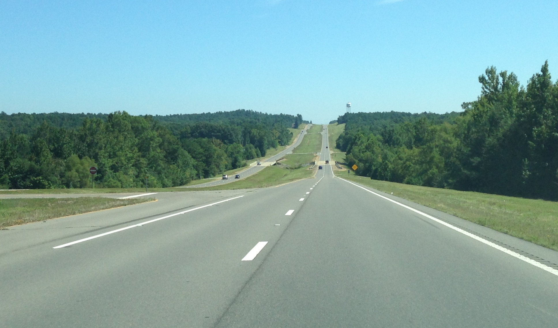 Travelling eastbound east of Oxford, Mississippi on Mississippi Highway 6/U.S. Route 278 in Lafayette County, Mississippi.